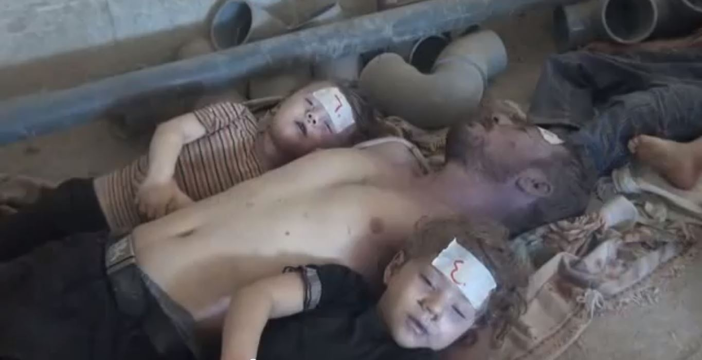 People and children in Ghouta massacred by chemical attack.